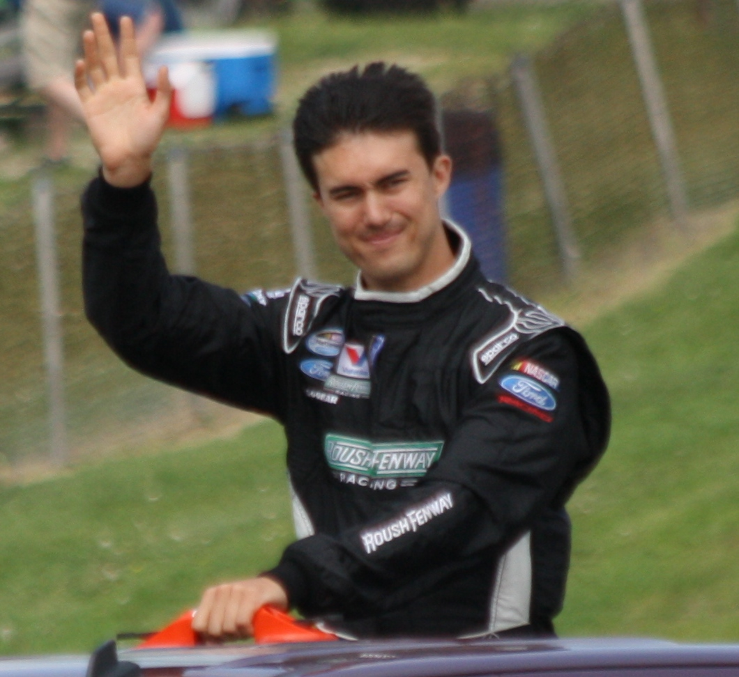 NASCAR driver Billy Johnson at the 2013 Johnsonville Sausage 200 Nationwide race at Road America.